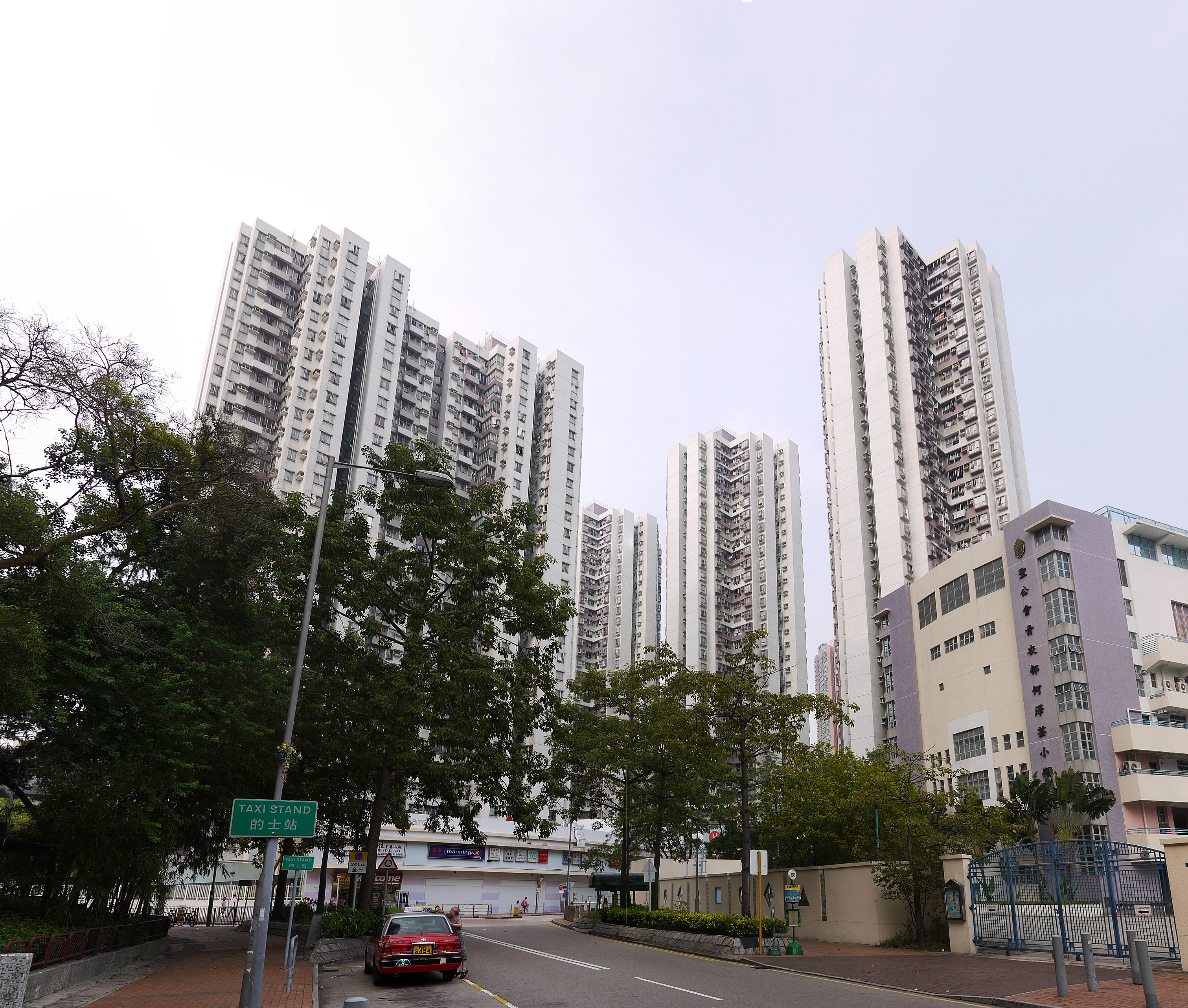 Exterior View of Board view Gardens